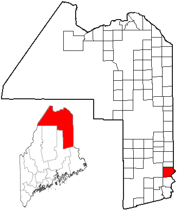 Adapted from U.S. Census Bureau maps (American FactFinder) and Wikipedia's ME county maps by Bumm13.